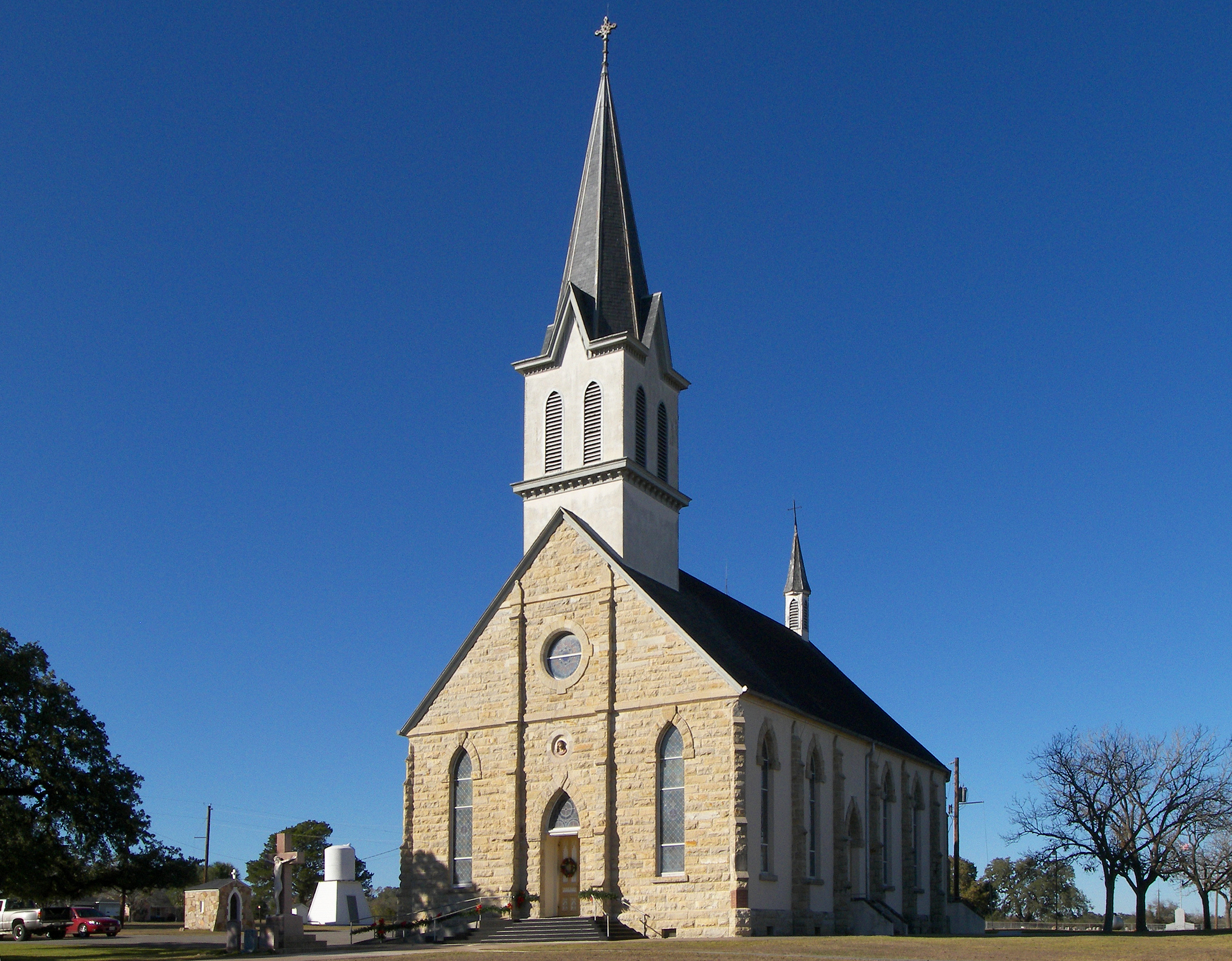 St. Mary's Church of the Assumption in Praha, Texas, United States. The church was listed on the National Register of Historic Places on June 21, 1983.